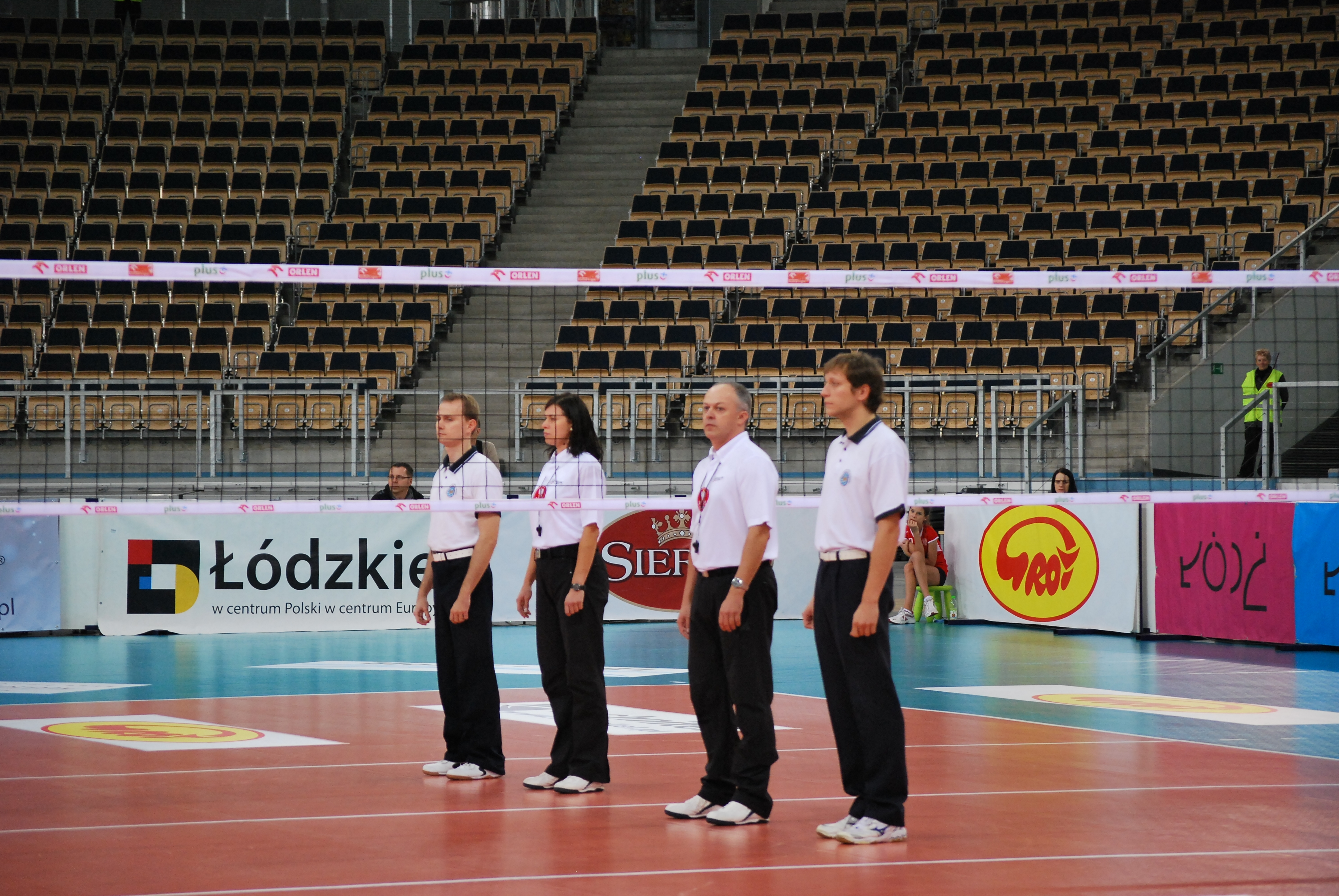 Volleyball referees